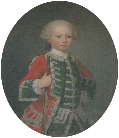 Portrait of Prince Giuseppe Benedetto of Savoy, Count of Moriana (1766-1802), younger brother of King Charles IV and King Victor; it hangs over a glass mirror. Giuseppe Benedetto wears the family hunting uniform.